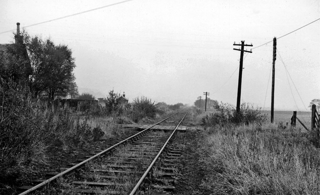 Site of Bardowie Station. View eastward towards Kilsyth. The line (from Maryhill) and station were closed to passengers on 20/7/51, to Goods on 1/5/52 - but the track was still there in 1961.